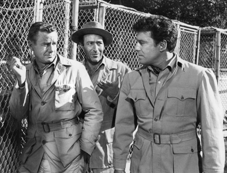 Photo from the television program Daktari. This is from The Diamond Smugglers episode; the photo is of Marshall Thompson (Dr. Tracy), Richard Angarola, and Nico Minardos.